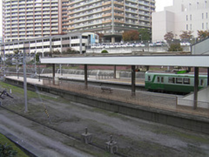 Kobe Municipal Subway Seishin-Chuo Station